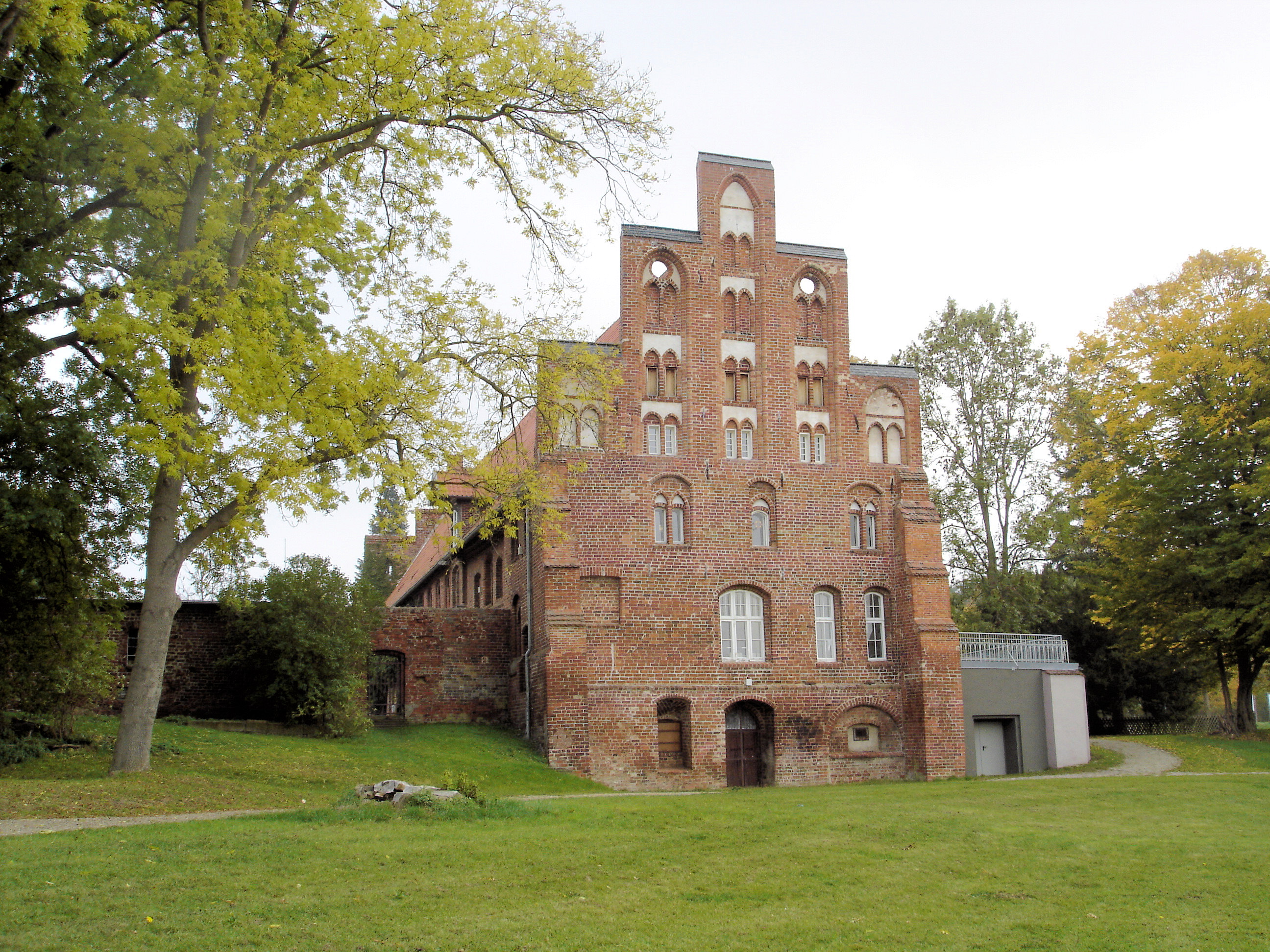 house of the monastery Neukloster, Mecklenburg, Germany